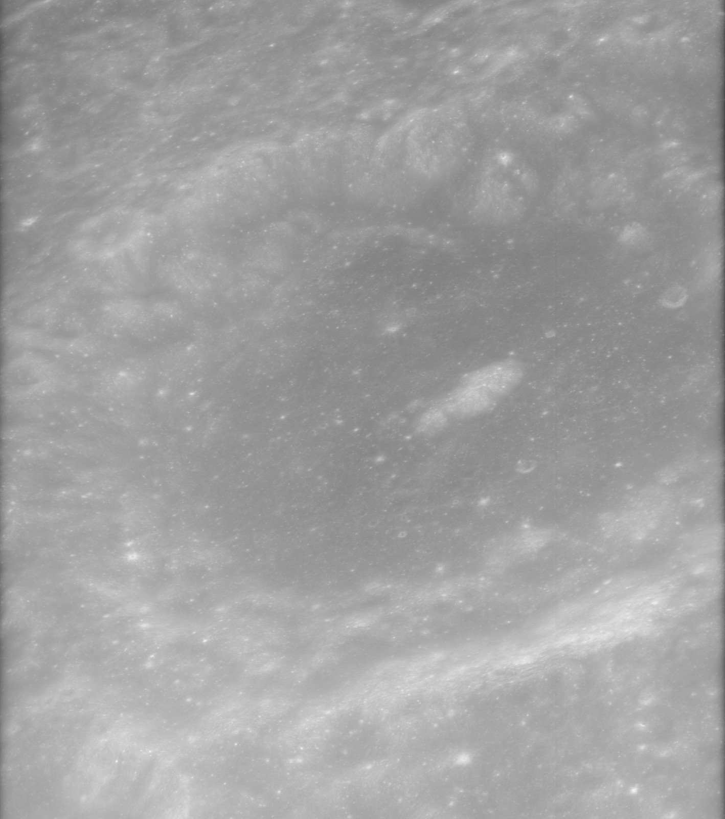 Oblique view of Nobili crater, facing north, on the moon.